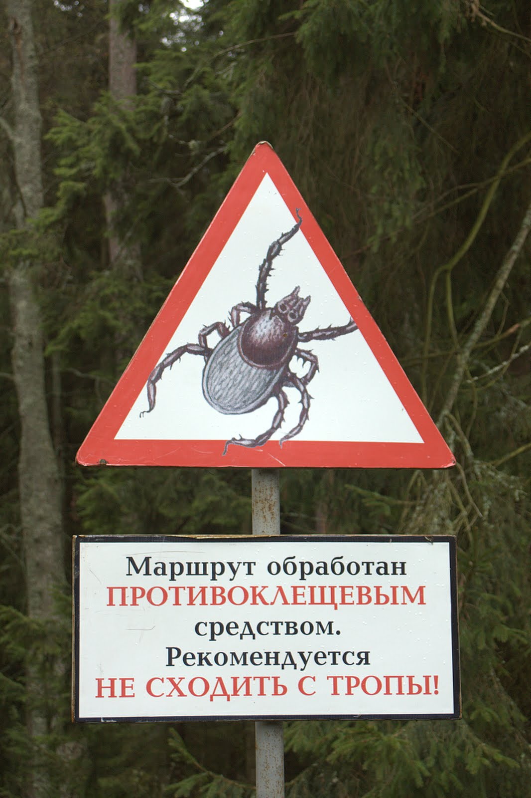 Tick warning sign in Russia.